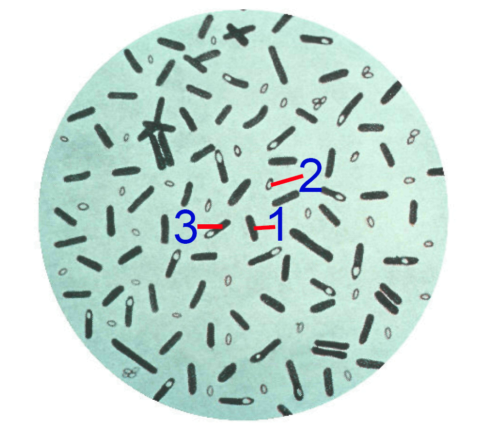 Clostridium botulinum